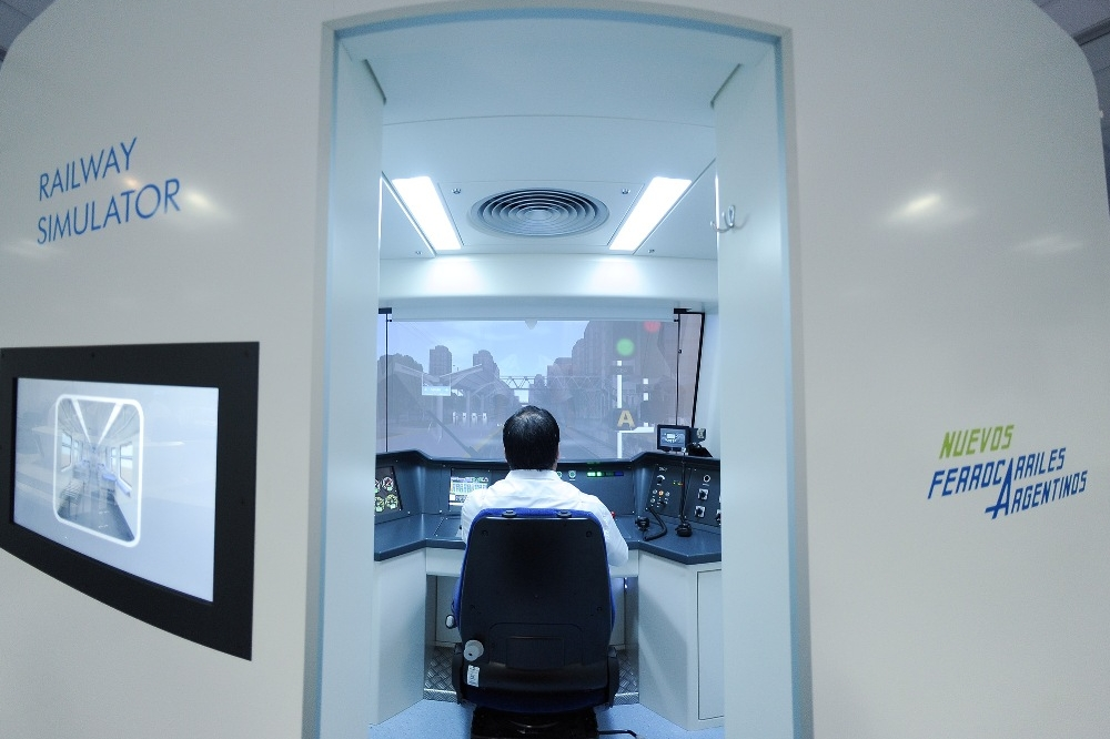 A train simulator at the Centro Nacional de Capacitación Ferroviaria in Argentina.